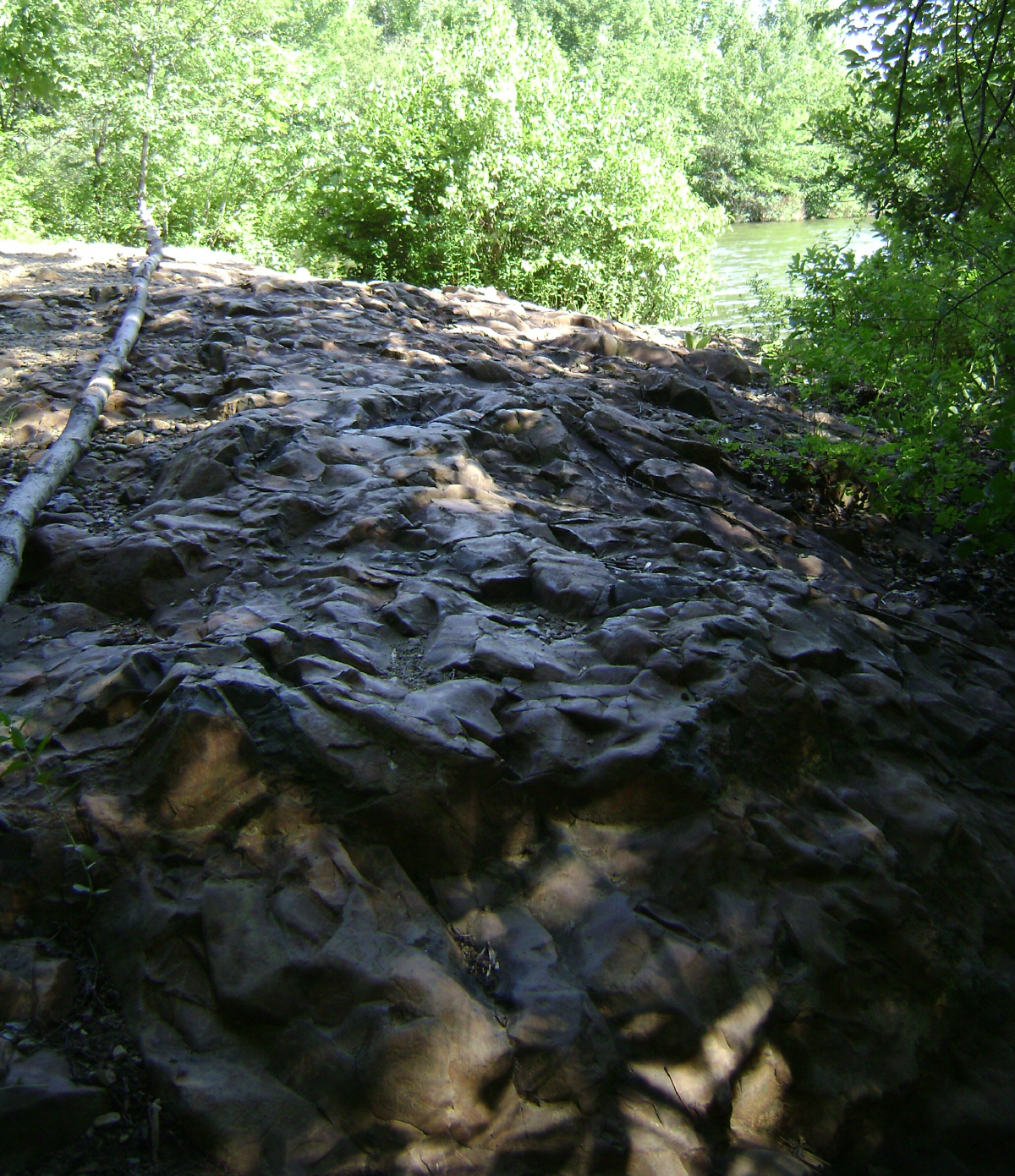 Outcrop of basalt, part of a 200 million year old lava flow seen along the shore of the former Haledon Reservoir in Franklin Lakes Nature Preserve, a 147 acre public nature reserve in Franklin Lakes, New Jersey, USA.